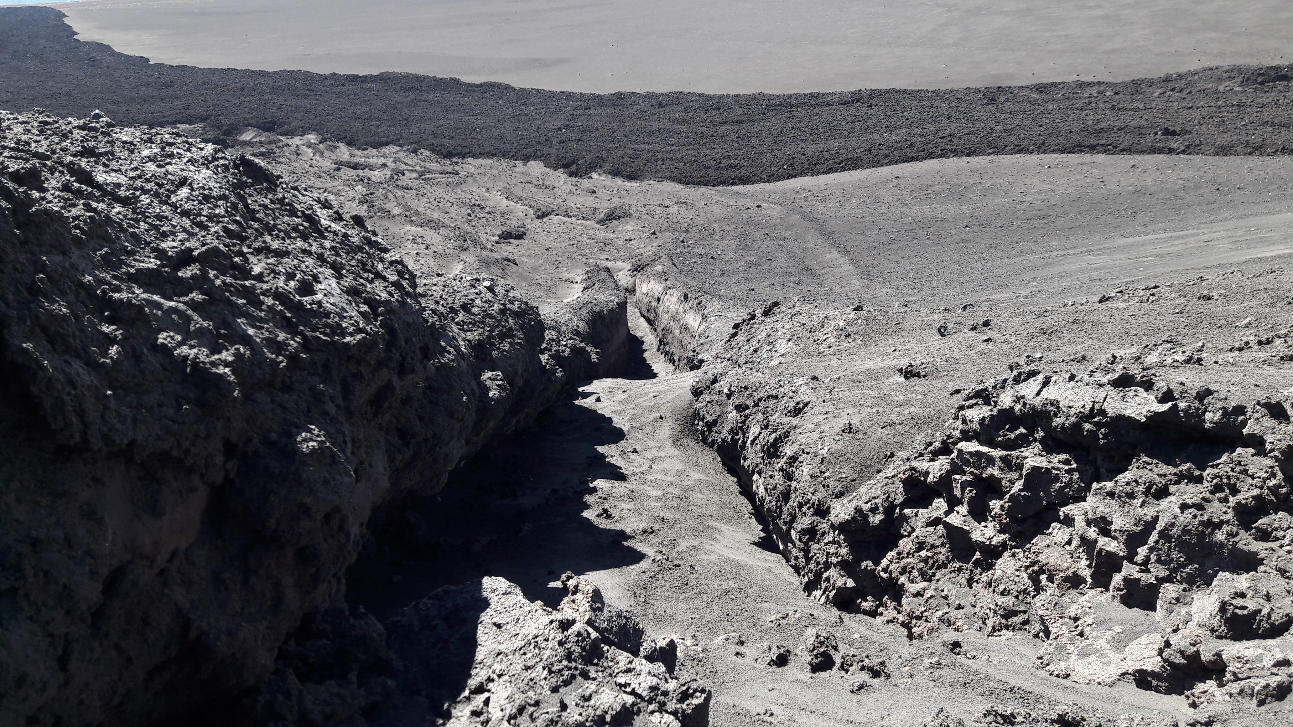 An aa lava flow (black) over older tephra and lava (grey) at Mount Etna on Sicily in Italy.